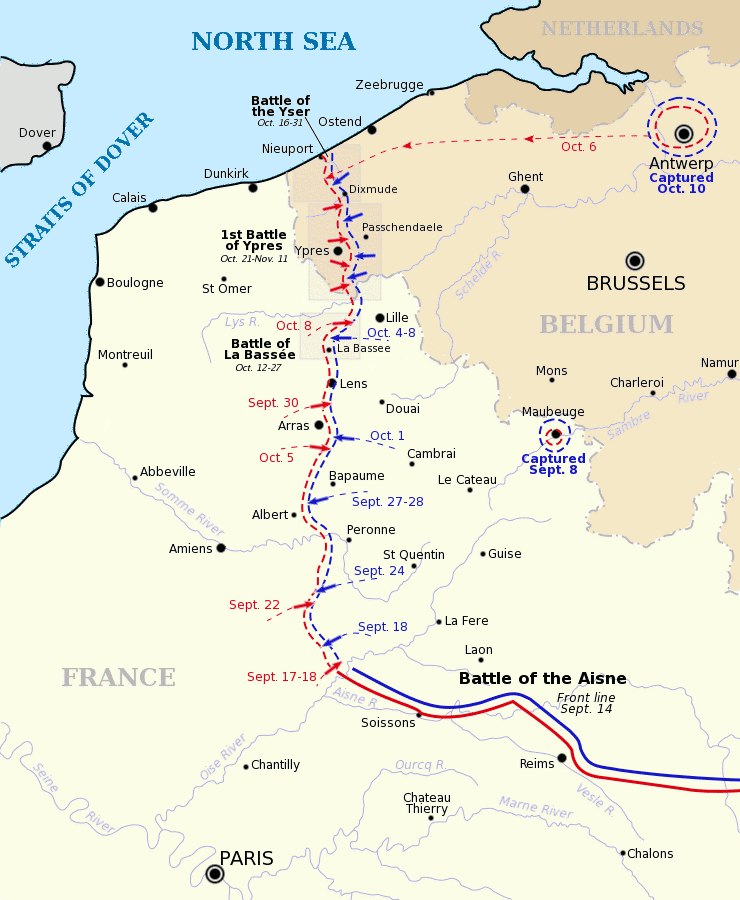 Map showing the course of the "Race to the Sea" during 1914 following the Battle of the Aisne. Allied front line and movement is shown in red, German front line and movement shown in blue. Three of the battles that occurred during or after the "race" are shown boxed. Based on a map from A Short Military History of World War I - Atlas, edited by T. Dodson Stamps and Vincent J. Esposito, 1950.